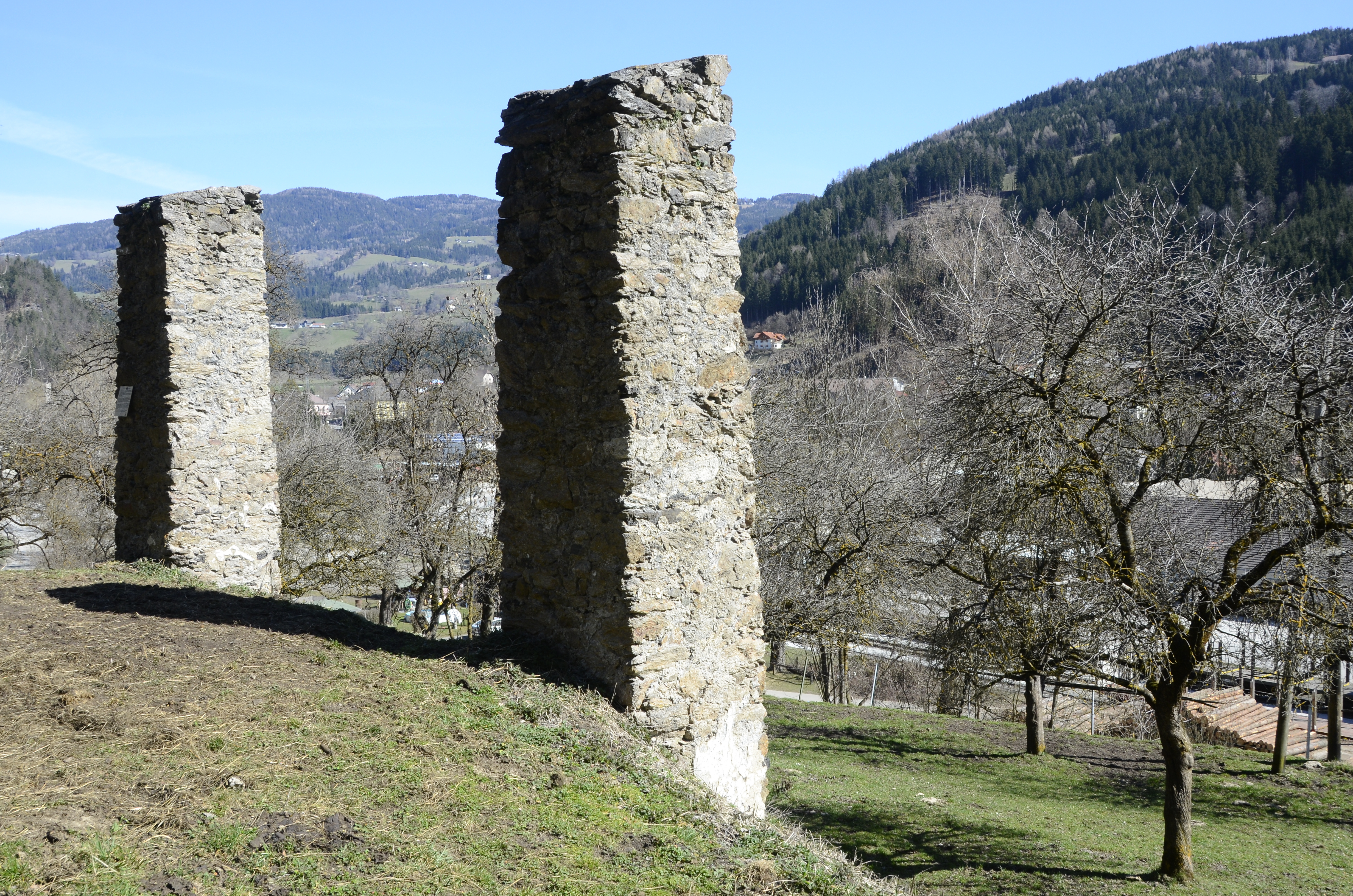 Former gallow near Gutschen #36, market town Eberstein, district Saint Veit on the Glan, Carinthia, Austria, EU